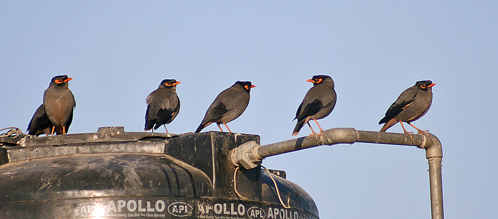 Bank Myna Acridotheres ginginianus at Hodal in Faridabad District of Haryana, India.